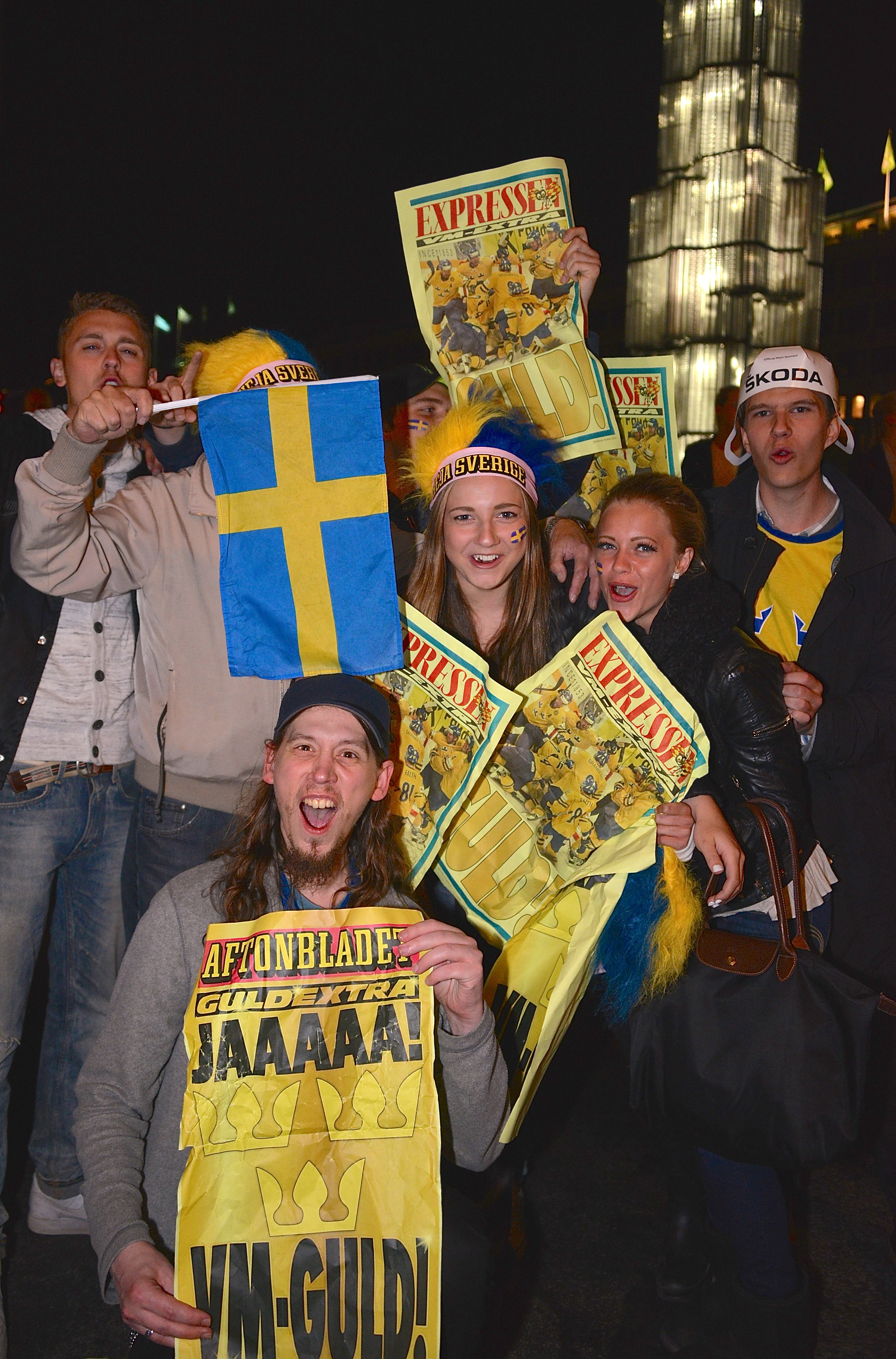 Happy supporters celebrating Sweden's World Championship gold in hockey at the Sergel's Square in Stockholm, 19 May 2013.